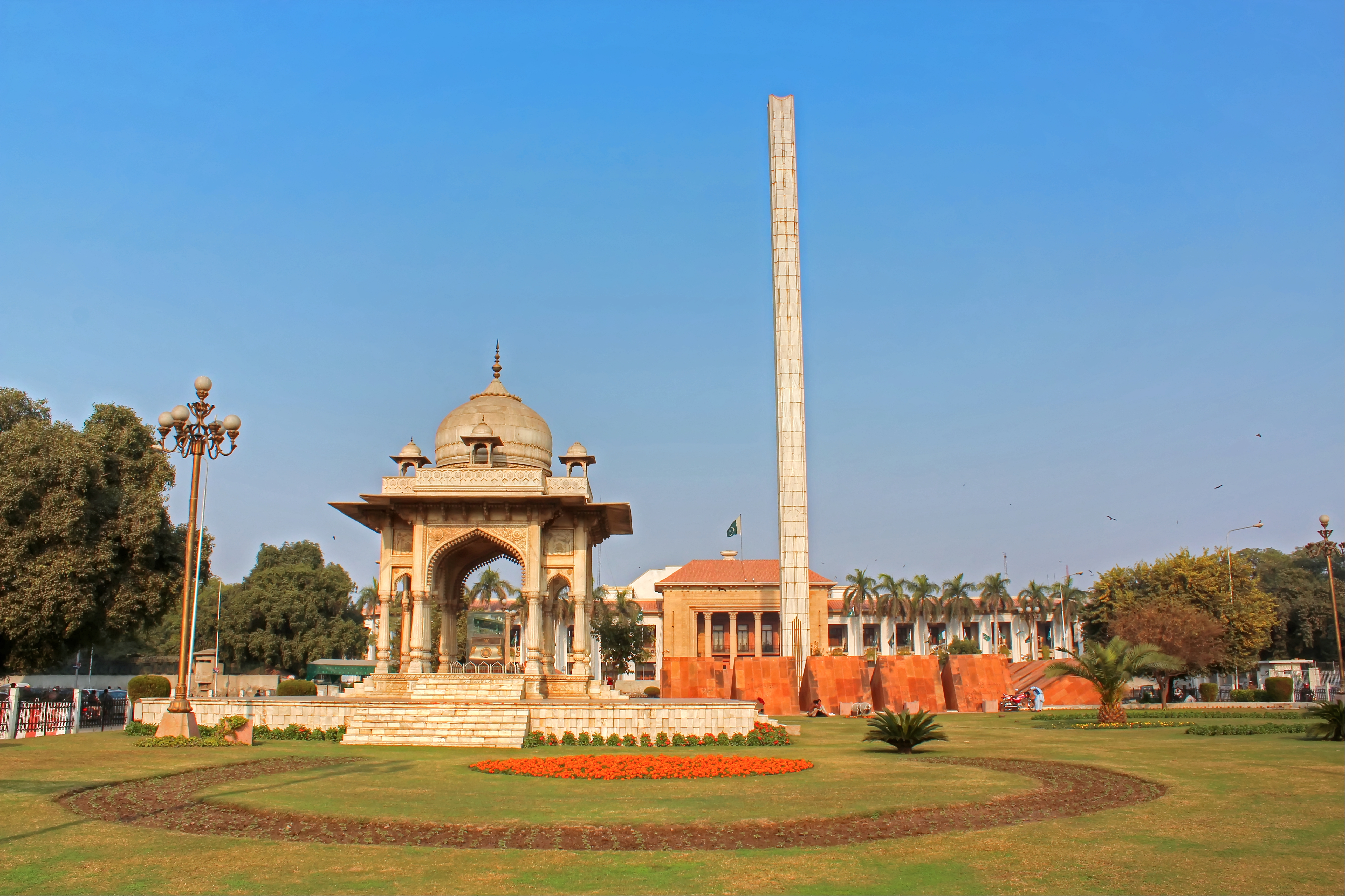 Islamic Summit Minar This is a photo of a monument in Pakistan identified as the PB-93